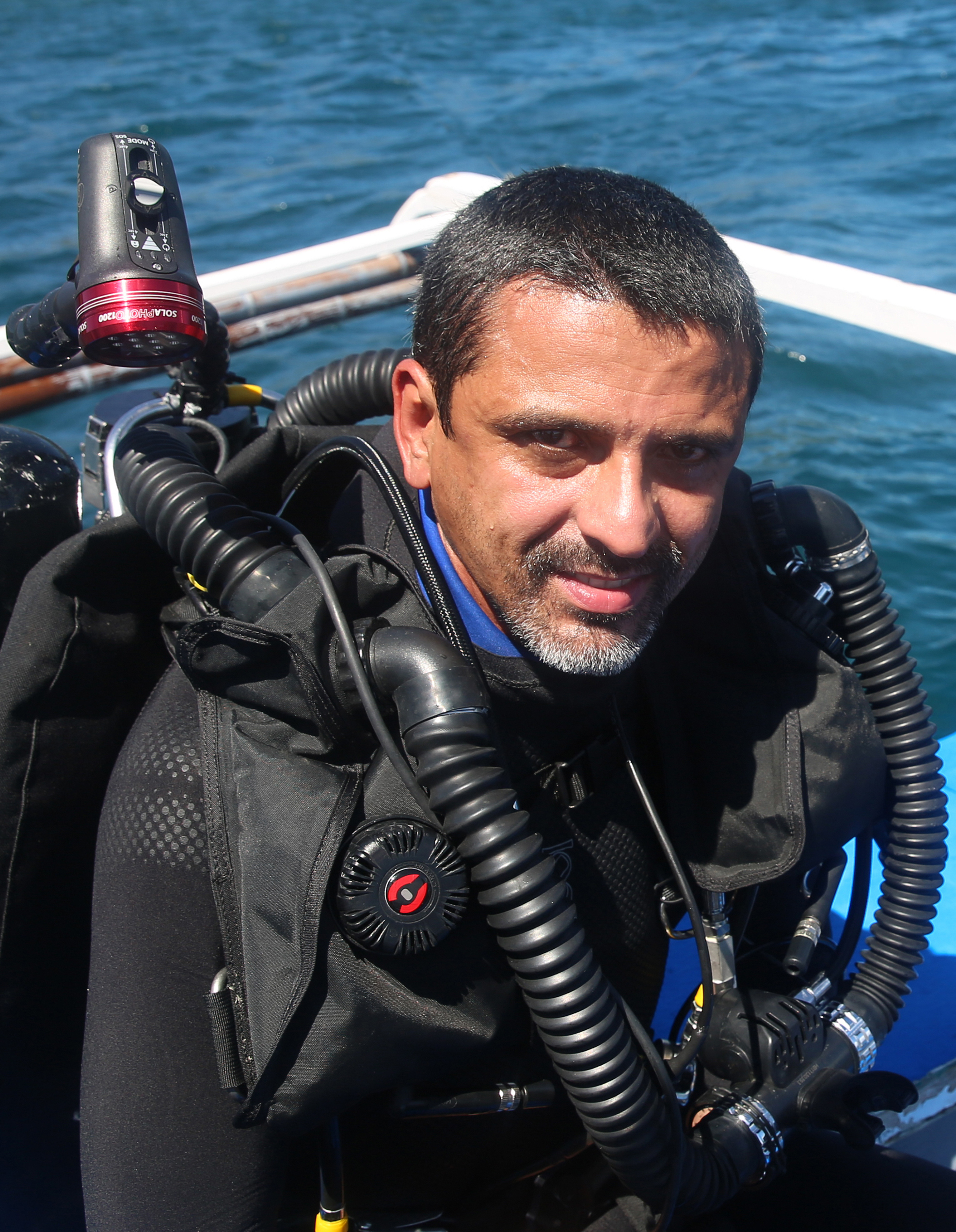 Luiz Rocha using a Prism2 Rebreather